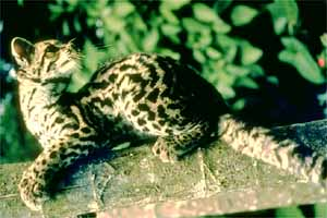 Margay in Corcovado National Park, Costa Rica, by Jerry Bauer.